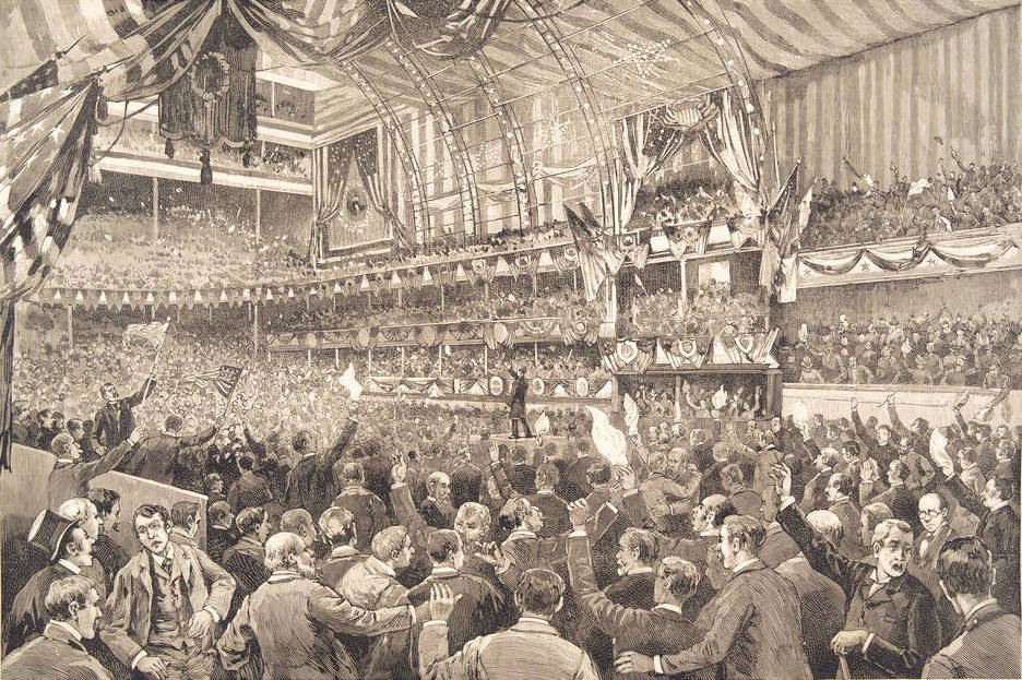 View of a crowd of politicians during a session of the 1888 Republican National Convention, Chicago, Illinois, 1888. Illustration published in Harper's Weekly.